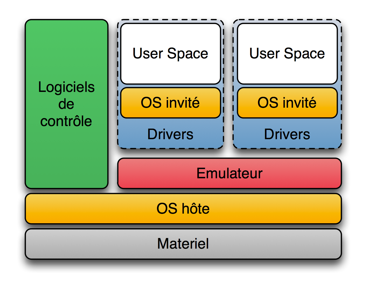 Virtualization, architecture of an emulator